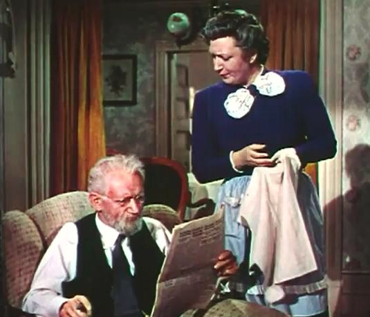 Ludwig Donath & Tamara Shayne in Jolson Sings Again - trailer (cropped screenshot)